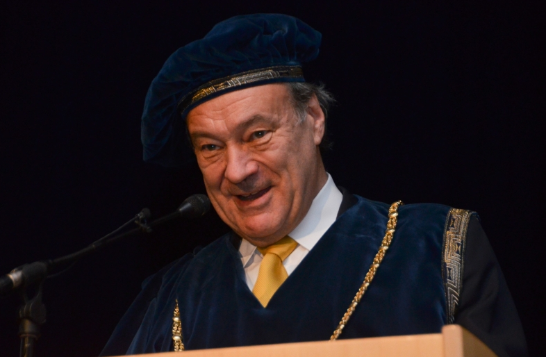 Prof. Dr. Dr. Felix Unger, the president of the European Academy of Sciences and Arts, speaking at the Alma Mater Europaea graduation ceremony. Maribor, Slovenia, 12 March 2013